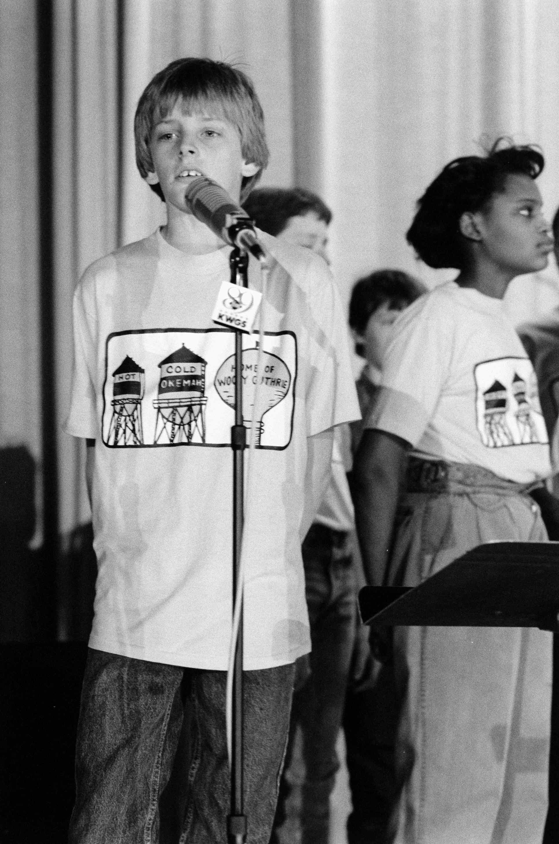 Larry Long with the assistance of middle school principal Larry McKinney and school board president Mark Smyth organized the first hometown tribute to Woody Guthrie at the Crystal Theatre on December 1,1988. Students from Okemah, Langston, and Davenport, Oklahoma performed songs they had written with Long's help. Selections from Woody’s writings were narrated by Okemah 7thgrader Jerry Baker and translated into the Seminole and Creek languages by First Nation Elder Woodrow ‘Wotko’ Haney. Besides Long other featured artists included Fiddlin’ Pete Watercott from California and the following beloved Oklahoma musicians: banjo virtuoso Alan Munde; gospel pianist Shirley Davis; and Okemah's own Reverend Olen Edwards on vocals and harmonica.